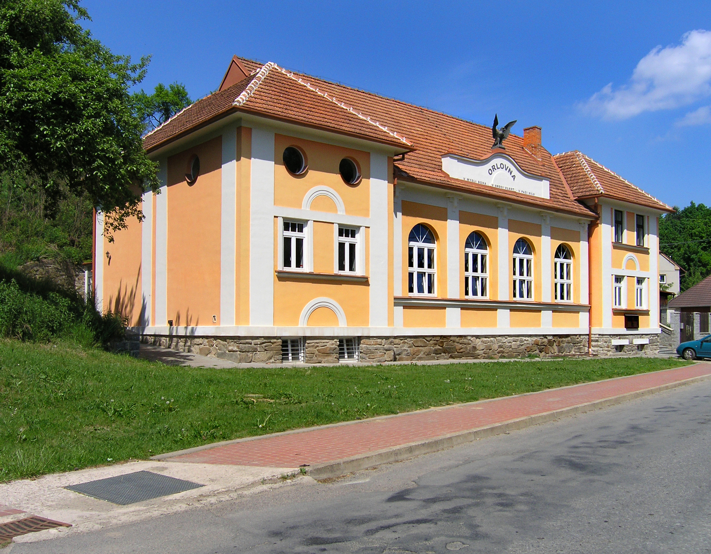 Orlovna (gymnasium) in Dolní Loučky village, Czech Republic